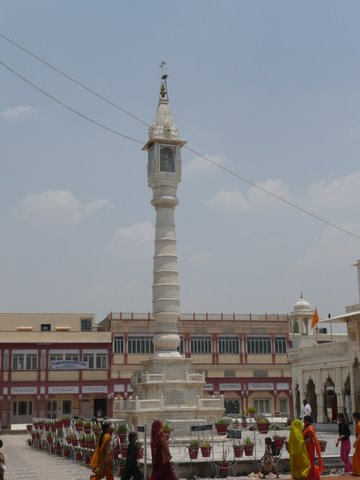 Photograph of the column at the Mahaveerji Temple